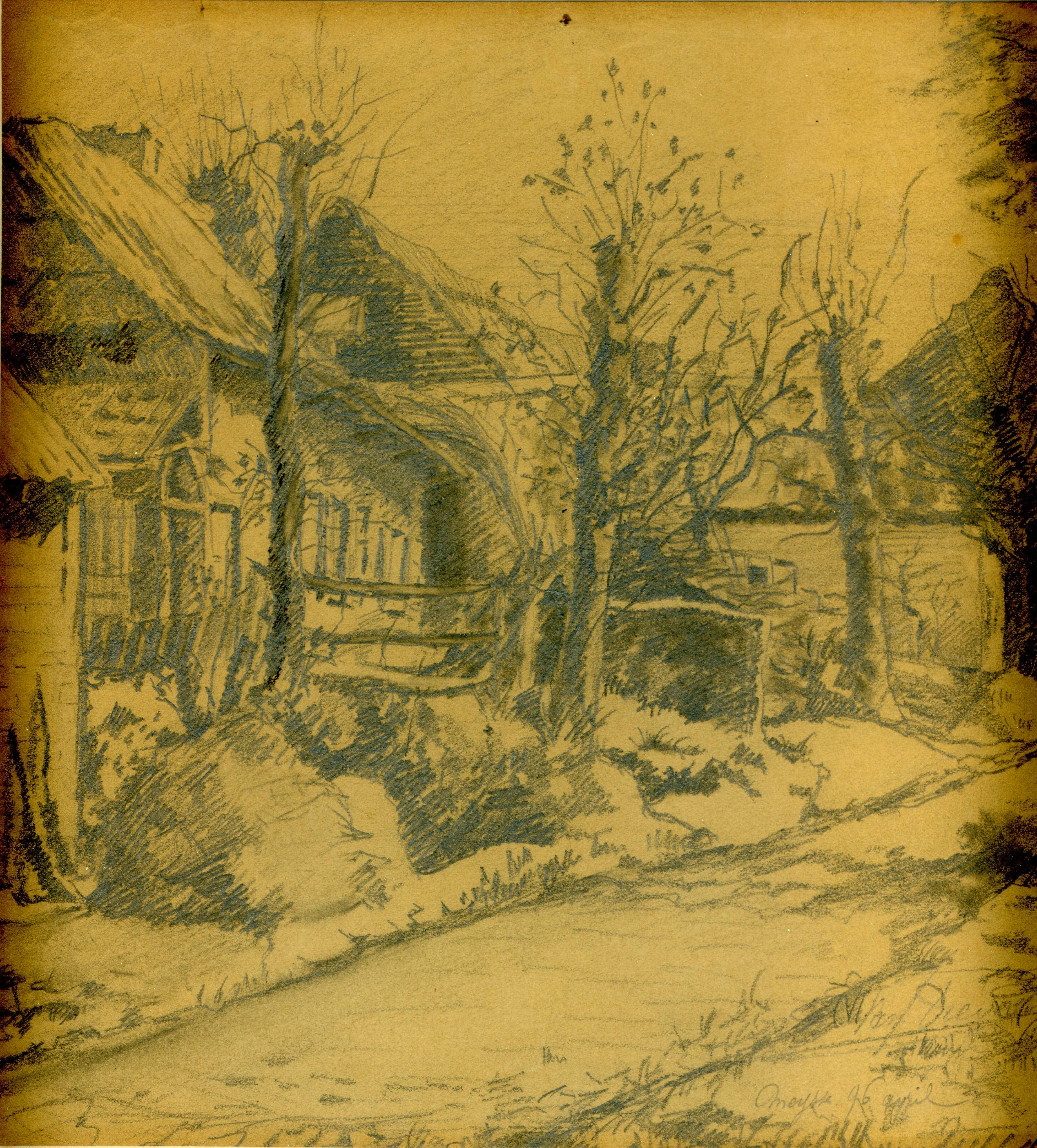 An old path in the village of Meise (Brabant, Belgium), drawing by Gabriel van Dievoet (1875-1934), 1896.